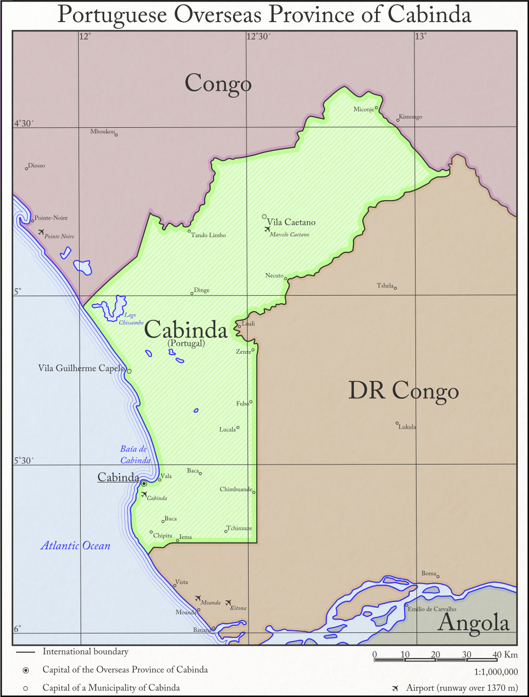 Cabinda-Portugues protectorate